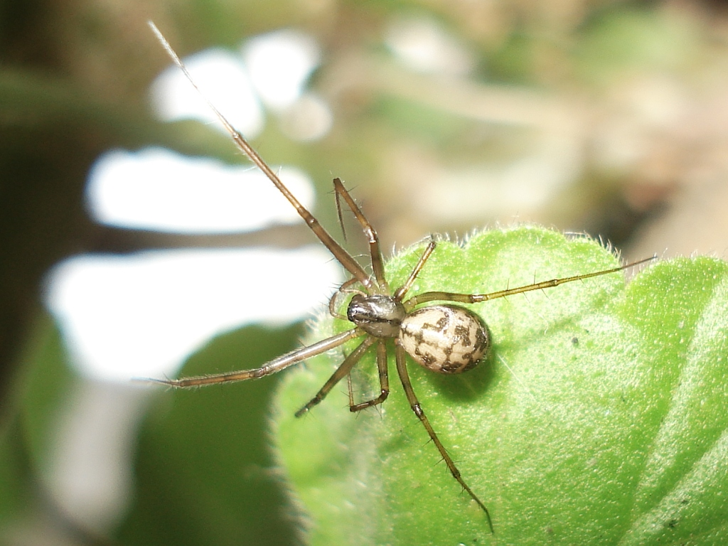 Labulla thoracica. Found in Audriņi village nera Rēzekne city, Latvia